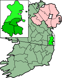 County Fingal map into Ireland